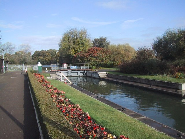 Godstow Lock on the River Thames at Lower Wolvercote, Oxfordshire